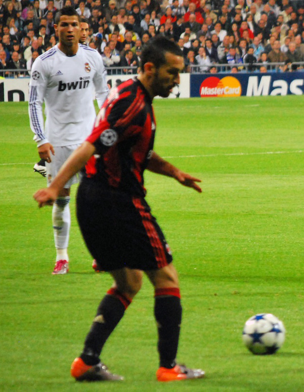 Gianluca Zambrotta during Real Madrid CF-AC Milan, 2010–11 UEFA Champions League